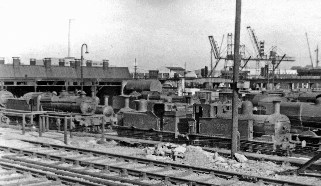 Glanmire Road Locomotive Depot, Cork, Ireland. View eastward [probably], just outside the former G&SWR's Glanmire Road Station (renamed Kent in 1966). The locomotives on the shed road nearest the camera may be identified. On the left, with only its smokebox door and chimney visible, is a GSR 800 Class (later B1a Class) express passenger 4-6-0. In front of it is a GSR 372 Class or 393 Class (later K1 and K1a Classes) mixed traffic 2-6-0. Next is a former GS&WR 2-4-2T such as a 33 Class (later F6 Class). Finally on the right is another former GS&WR tank locomotive; seemingly an 0-6-2T therefore a 211 Class (later I1 Class). [Expert opinion needed here!]